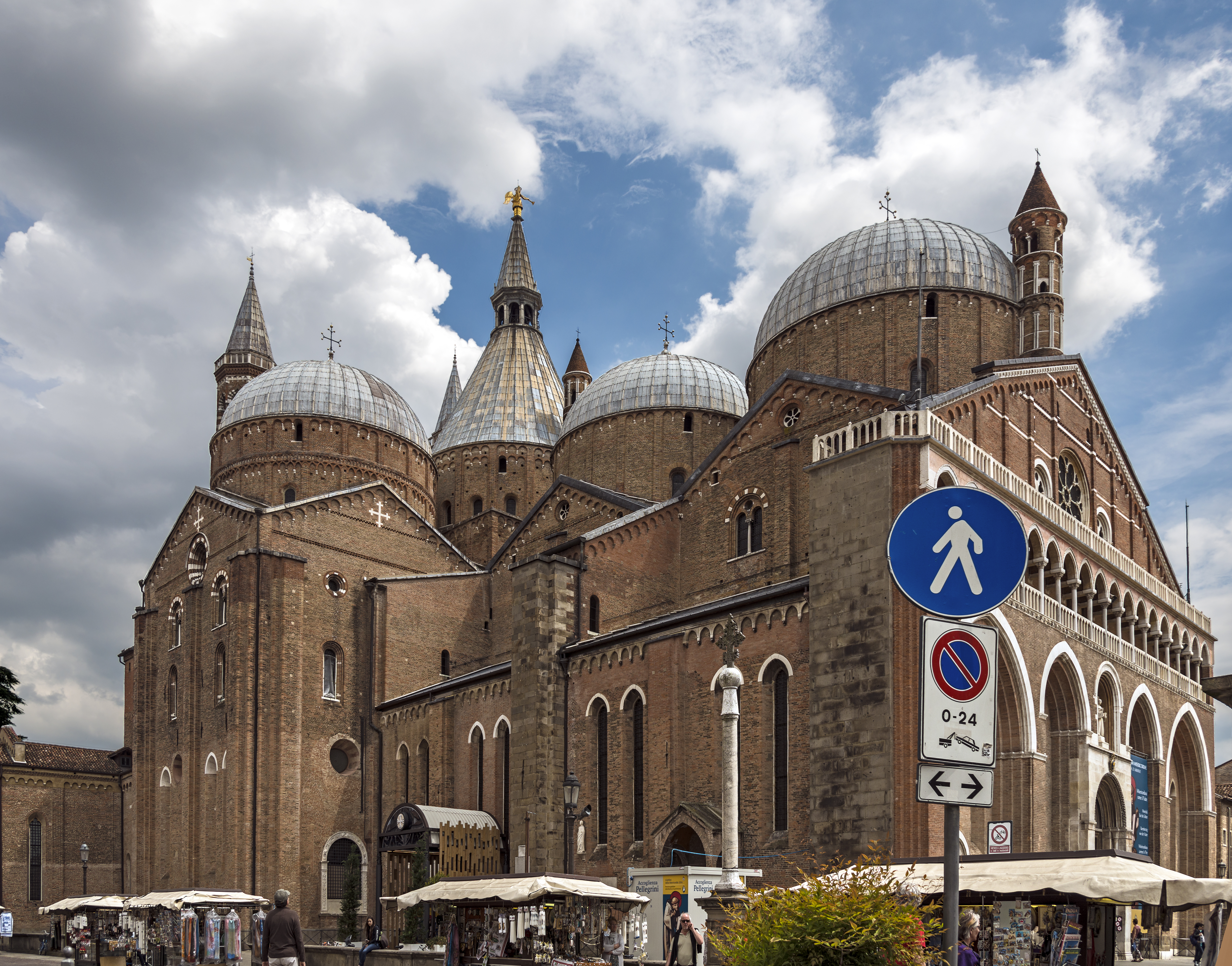 Basilica of Saint Anthony of Padua - North facade